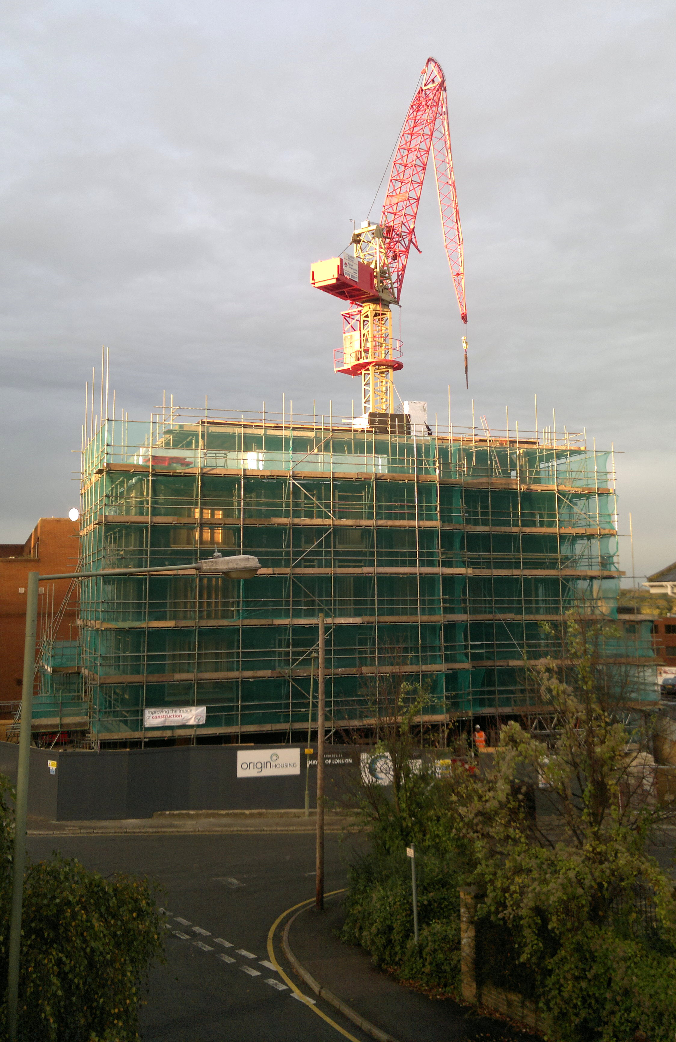 Origin Housing scaffold crane New Barnet